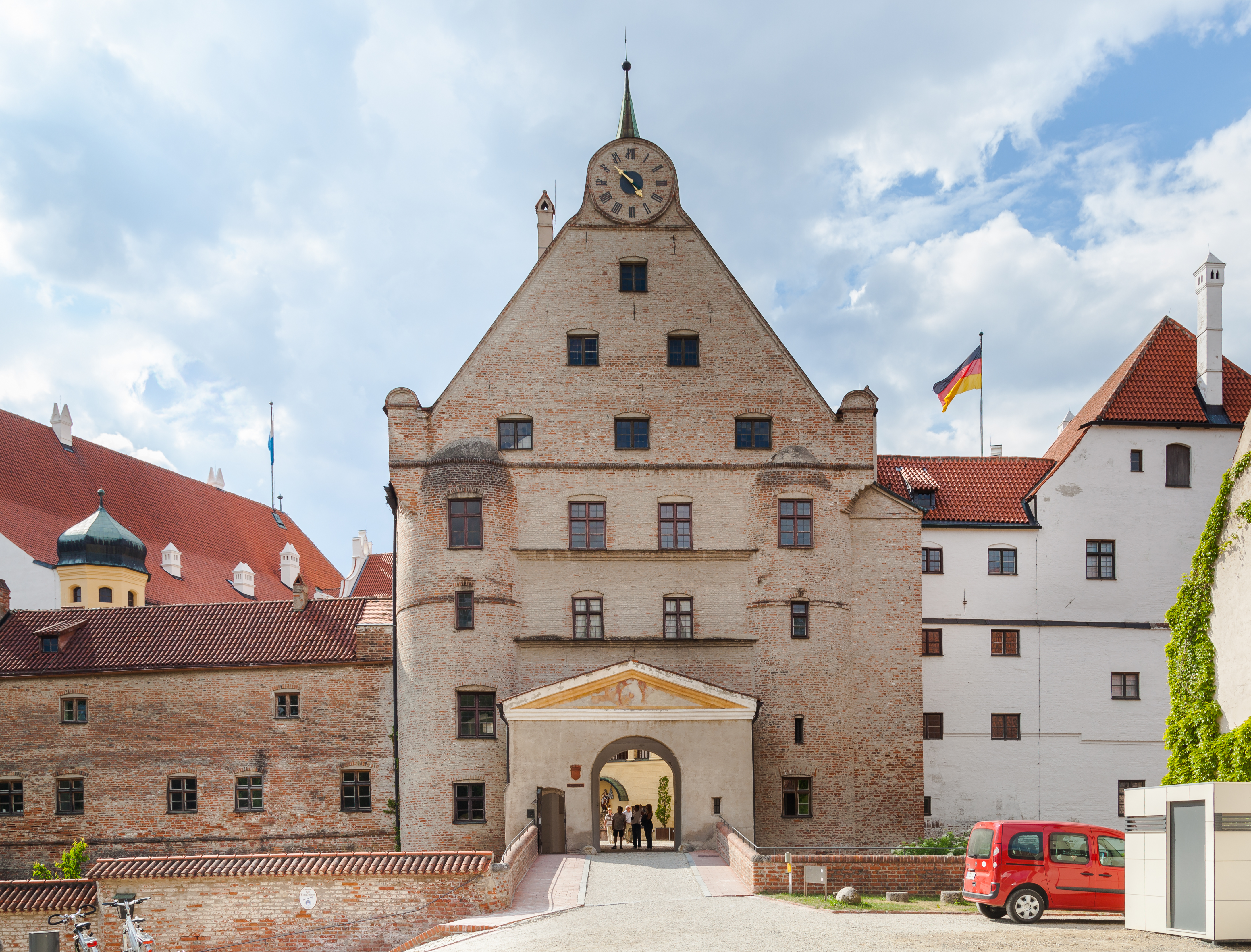 Trausnitz castle, Landshut, Germany